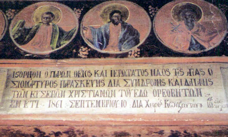 Inscription in the church in Orehovo, Macedonia